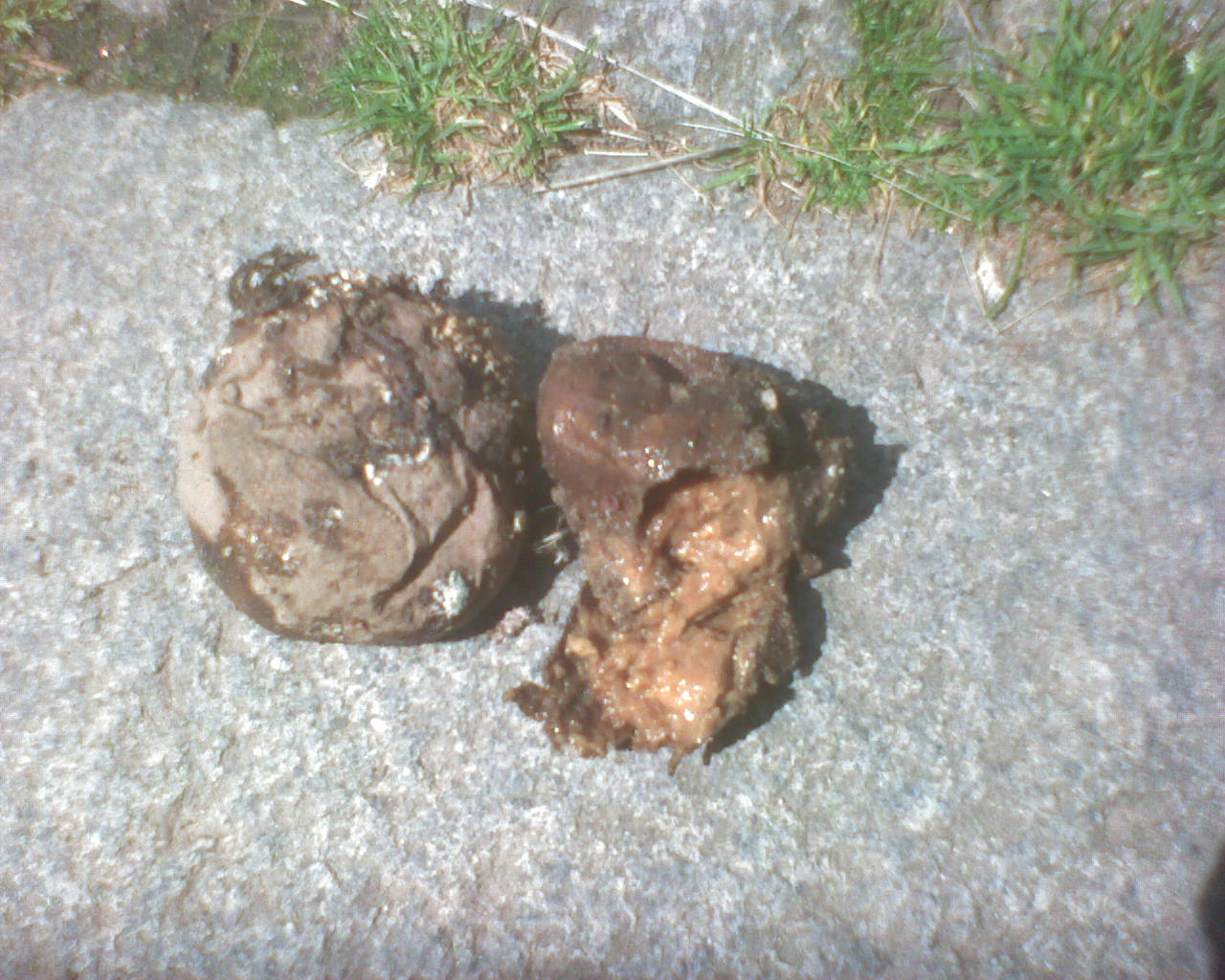 rotten potatoes Česky: shnilé brambory